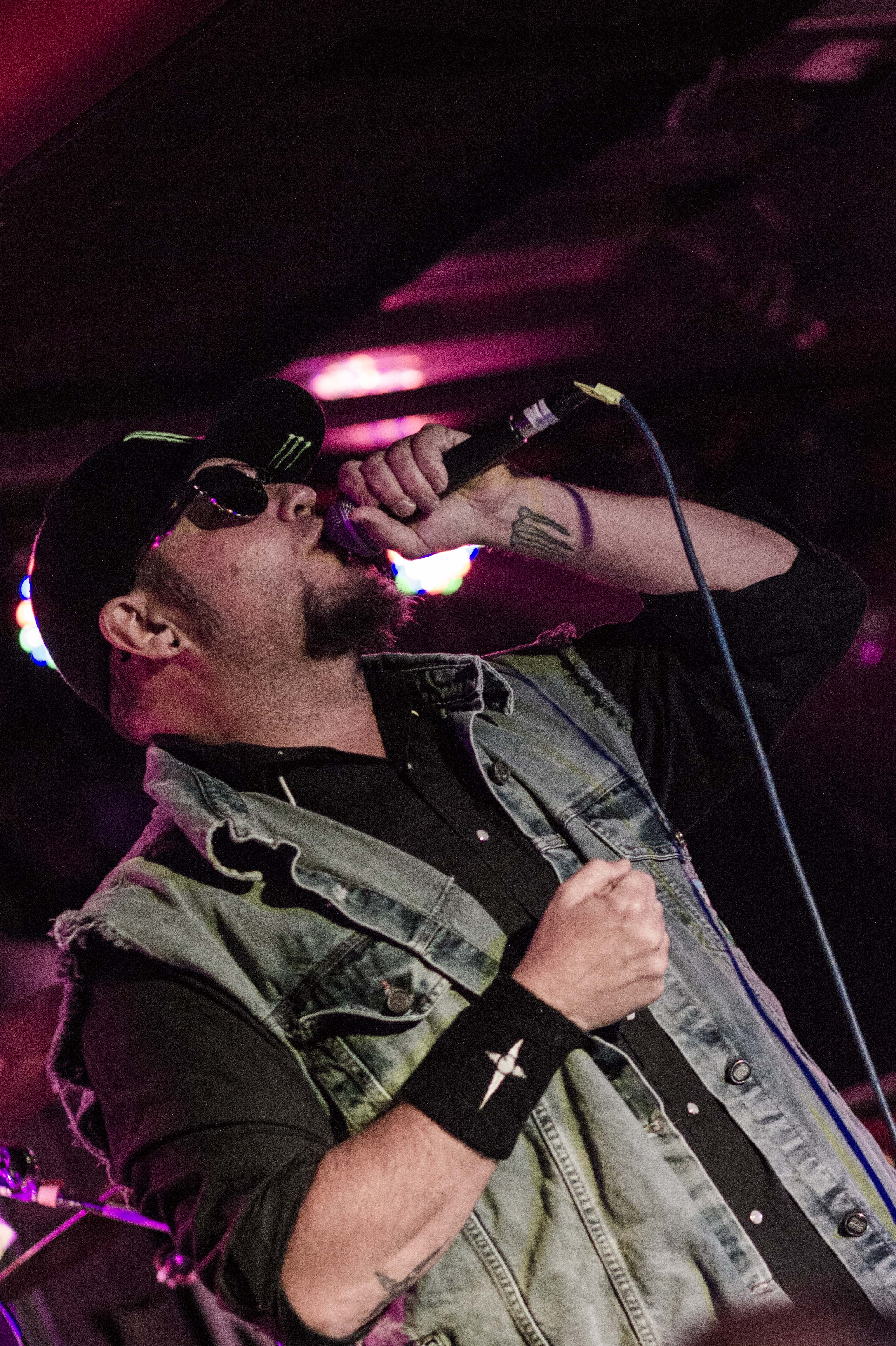 Tim Ripper Owens 2019